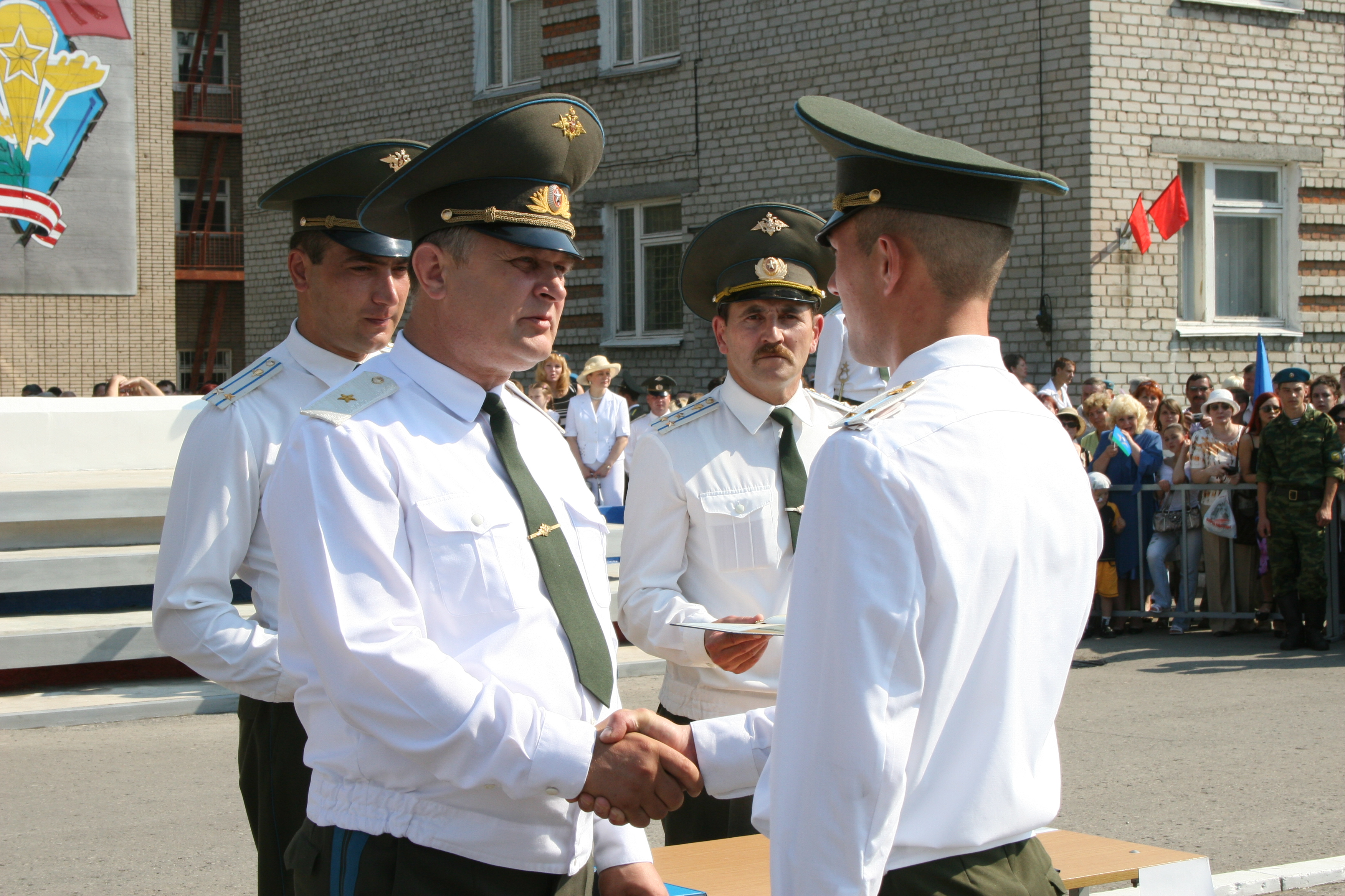 Maj. Gen. Vladimir Krymsky, Head of the Ryazan Airborne School holds an awards ceremony.